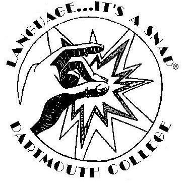 Rassias Center Logo